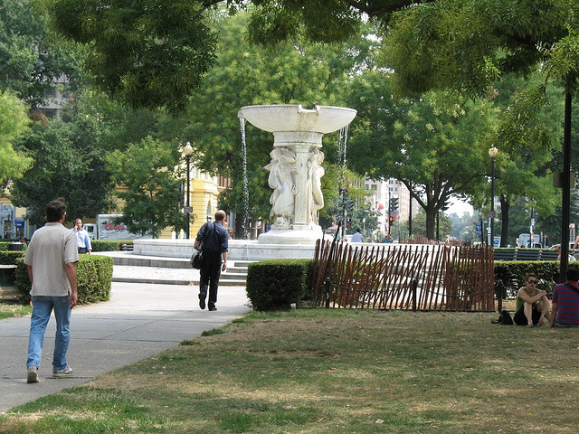 Photo of Dupont Circle